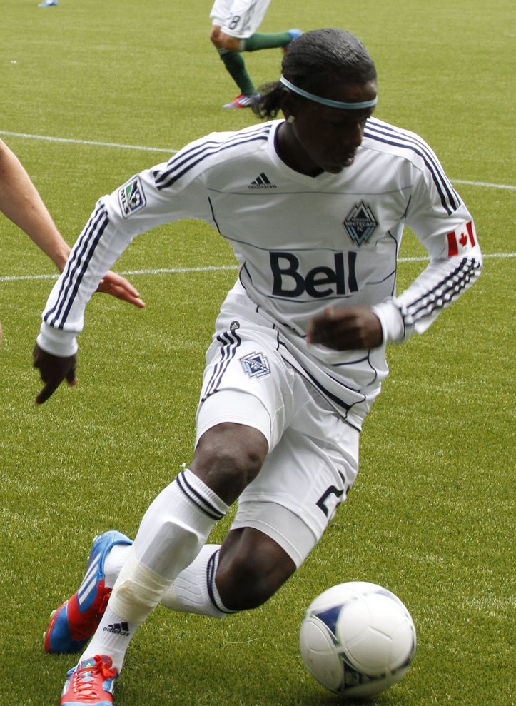 Portland Timbers reserves vs Vancouver Whitecaps reserves